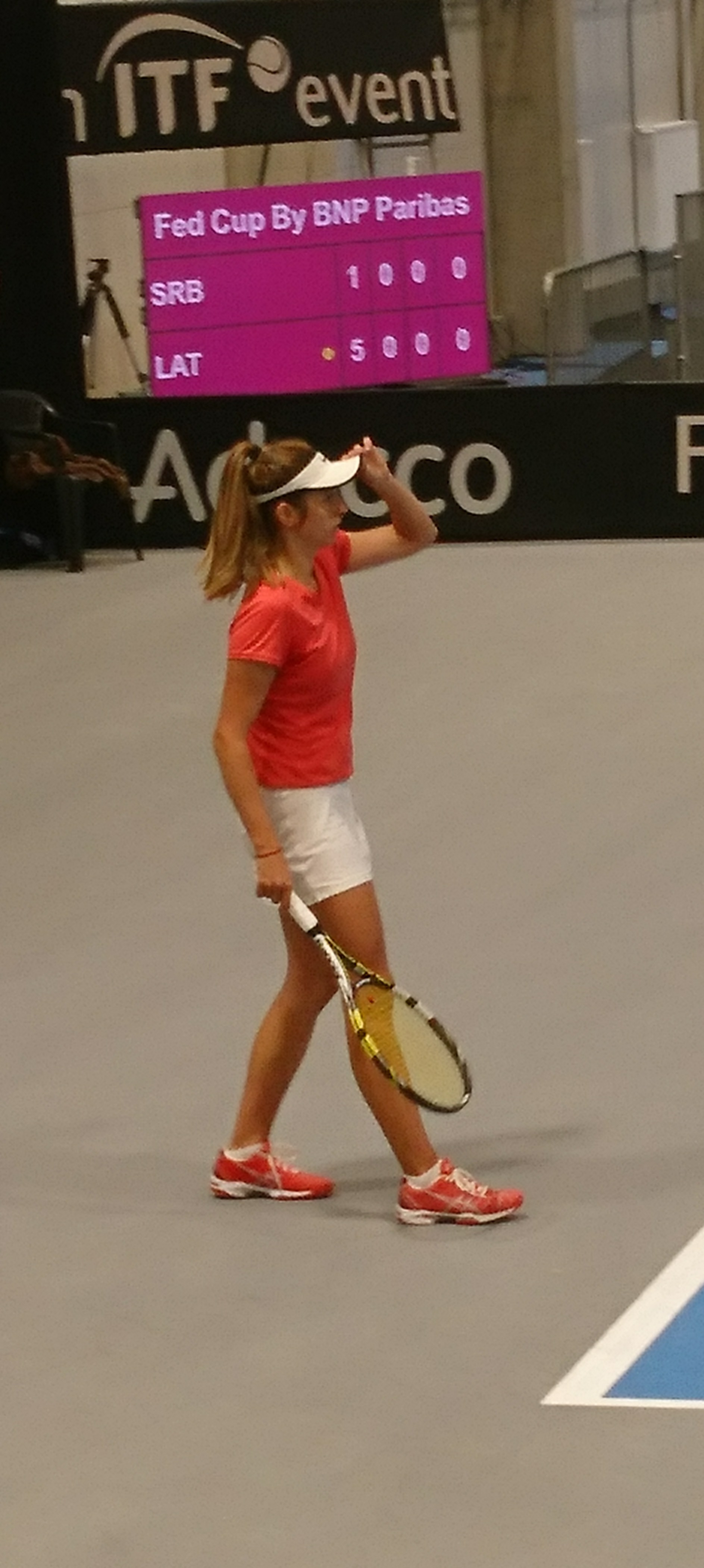 Dejana Radanović playing in 2018 Fed Cup in Tallinn, Estonia.